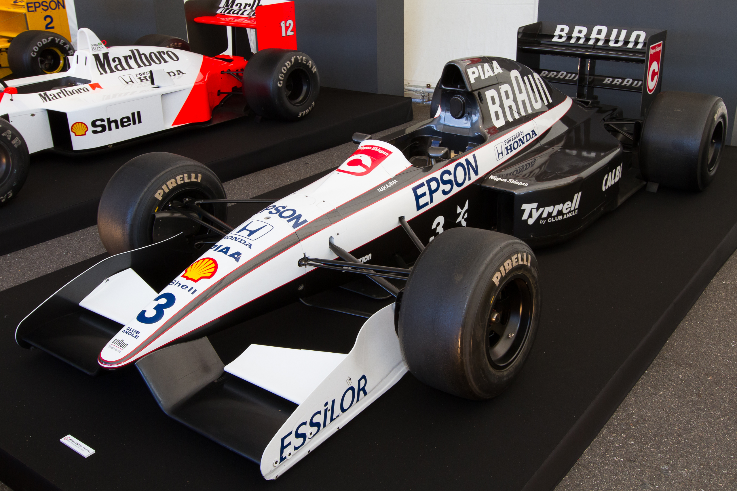 Formula One 2012 Rd.15 Japanese GP: Tyrrell 020 (1991, Satoru Nakajima's car)